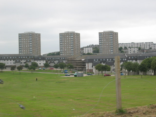 Housing at Balnagask. Mixture of flats and different housing types at Balnagask, Aberdeen